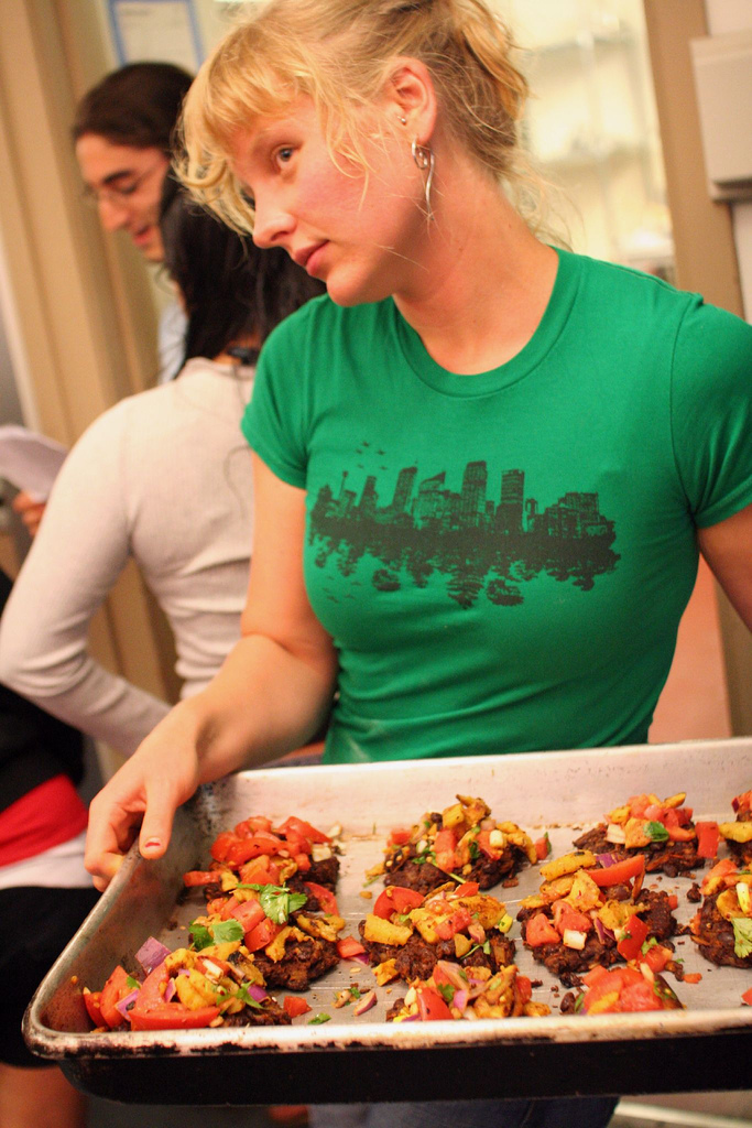 Serving veggie burgers at Stanford university